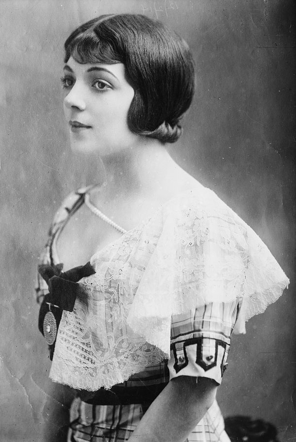 French-born American actress and singer Irène Bordoni (1895-1953)